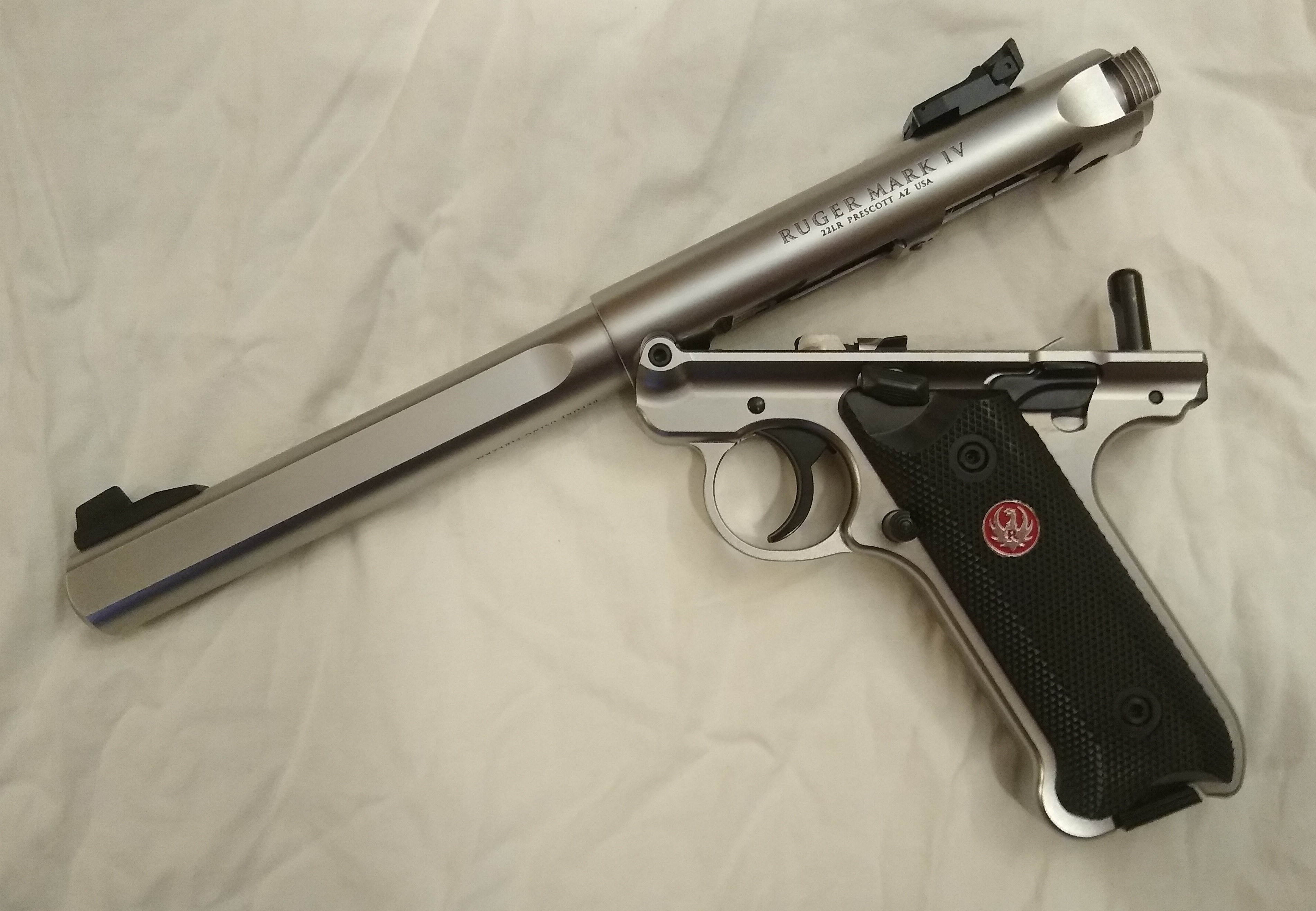 Ruger MK IV Competition, but with standard grips, first step of disassembly (pressed button on back).